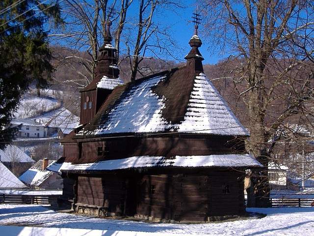 Ruský Potok wooden church